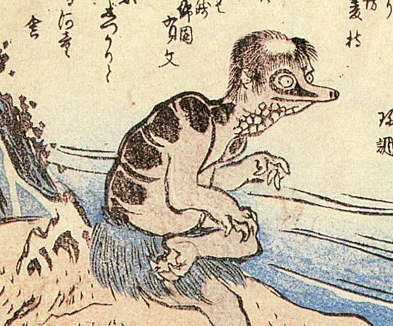 Kappa (河童, a famous water monster with a water-filled head and a love of cucumbers) from the Kyōka Hyaku-monogatari (狂歌百物語)